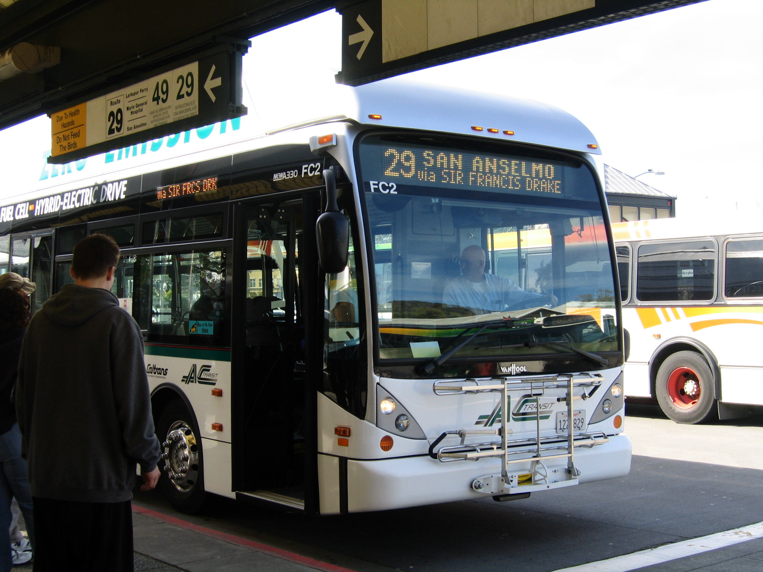 A Van Hool A330 bus, modified as a Zero-Emissions Bus (ZEB), on a test run by Golden Gate Transit in Marin County